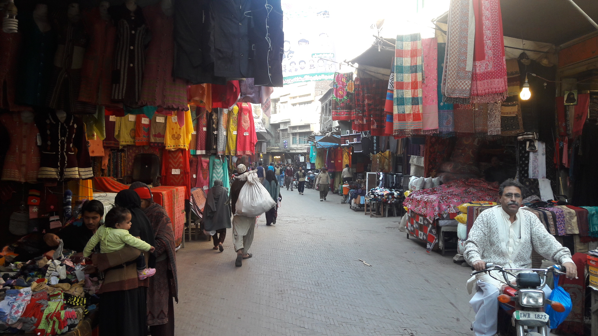 Shahi Guzargah, Inside Dehli Gate